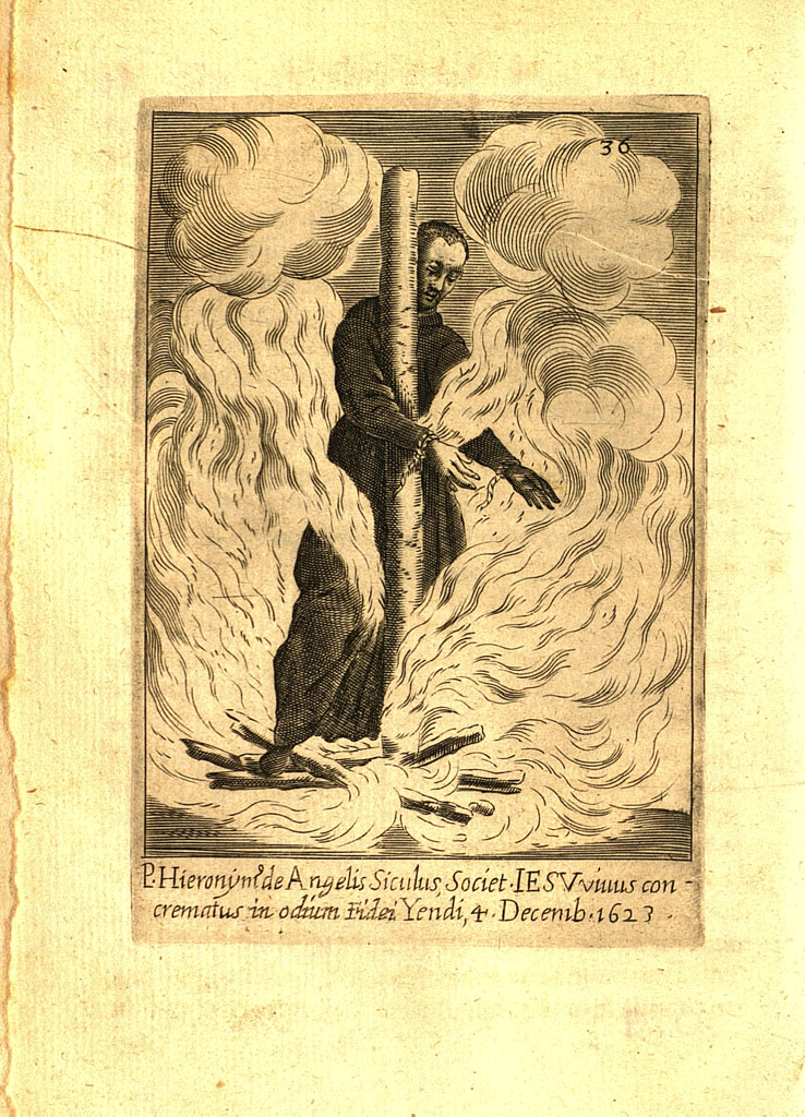 Jerome de Angelis was one of the missionaries burned at the autodafe in Edo in 1623